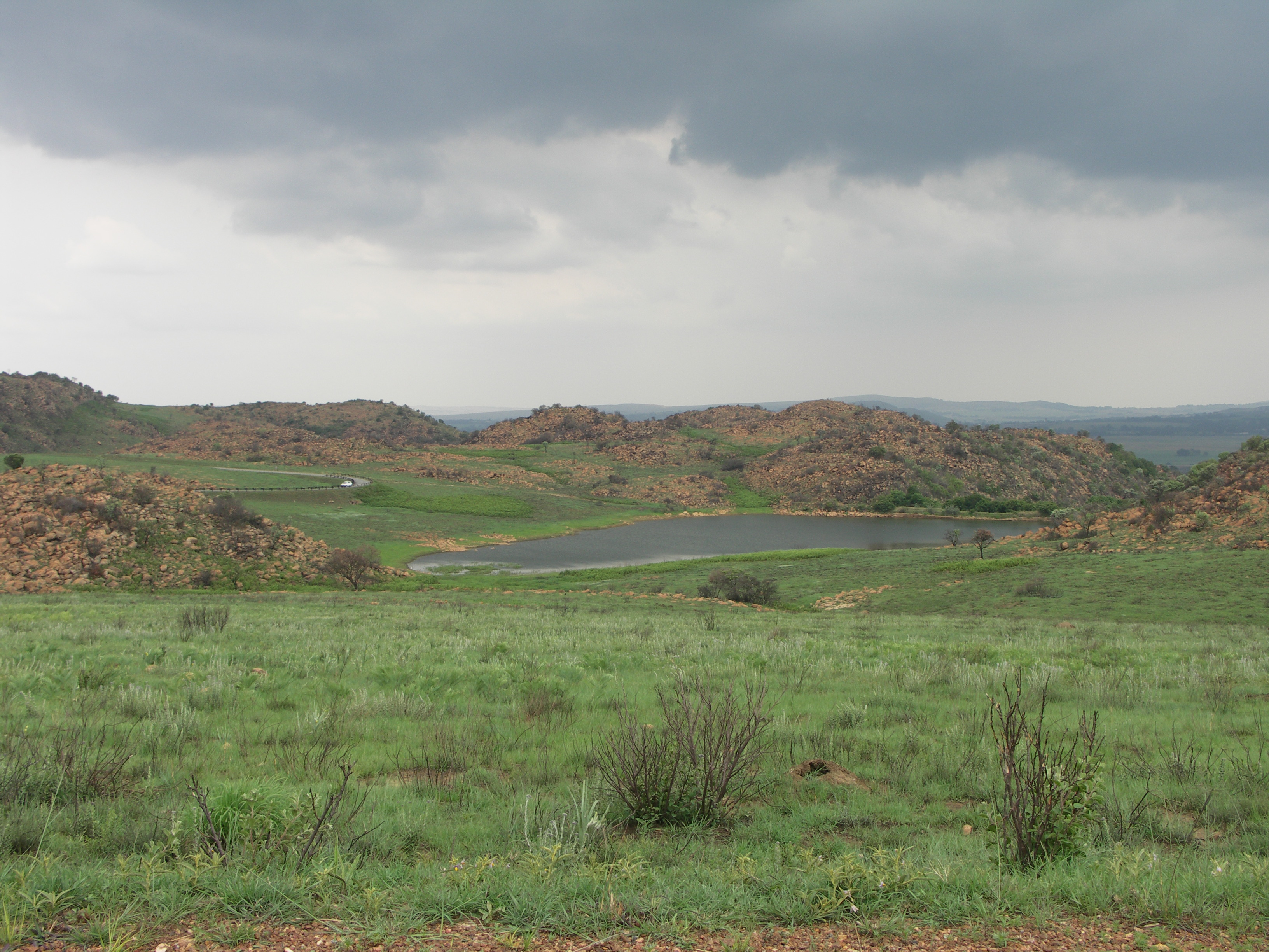 Suikerbosrand Nature Reserve, Gauteng. Sedaven Dam